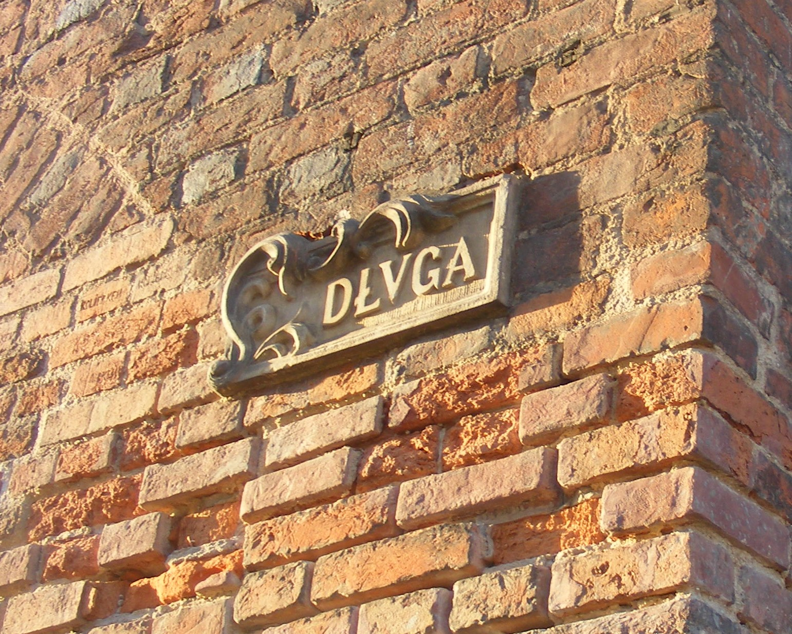 Długa street name sign in Gdańsk.